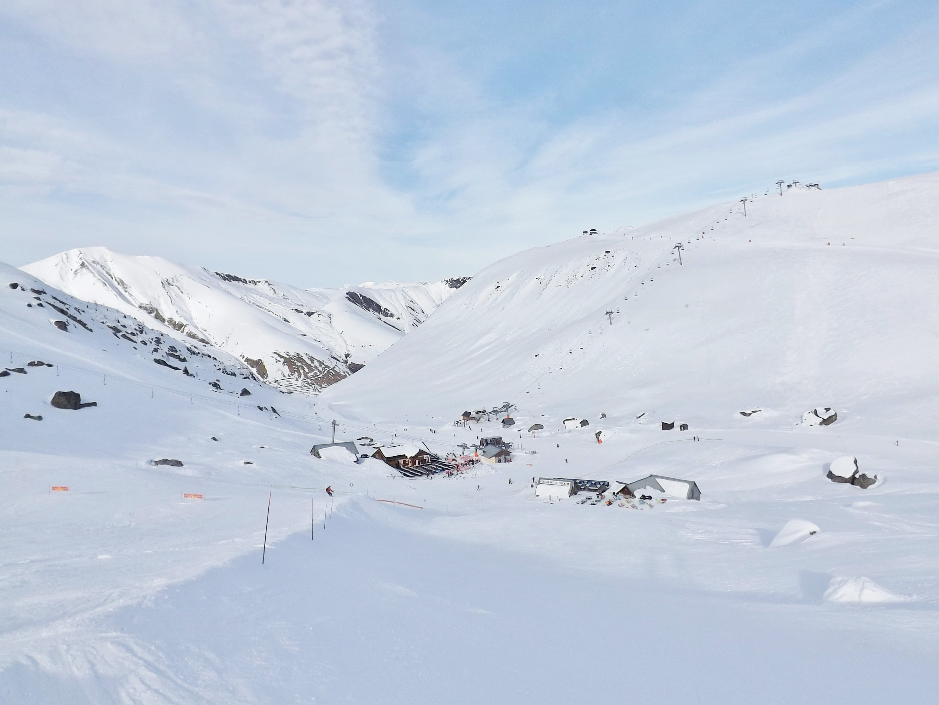 Panoramic sight of slopes, lifts and restaurants of Saint-Sorlin-d'Arves ski resort, in Savoie, France.